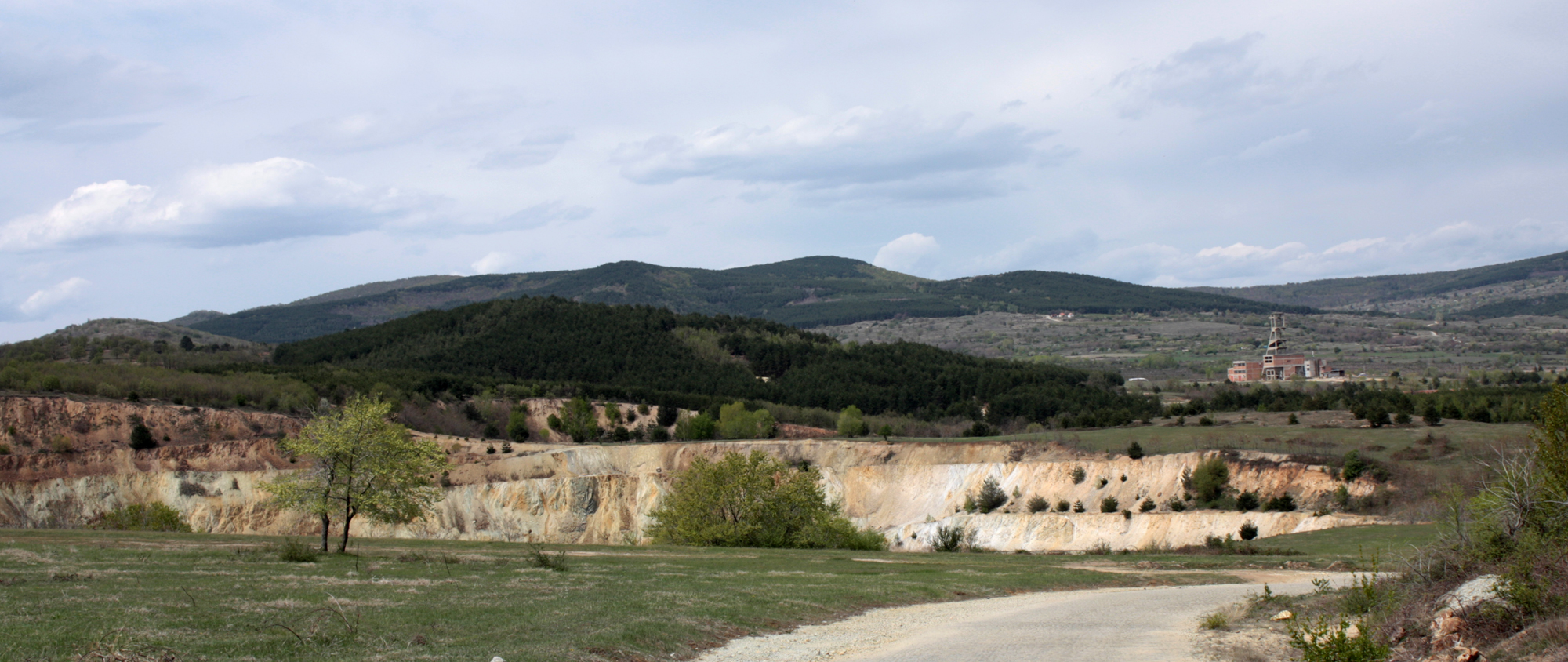 Elshitsa mines. Bulgaria